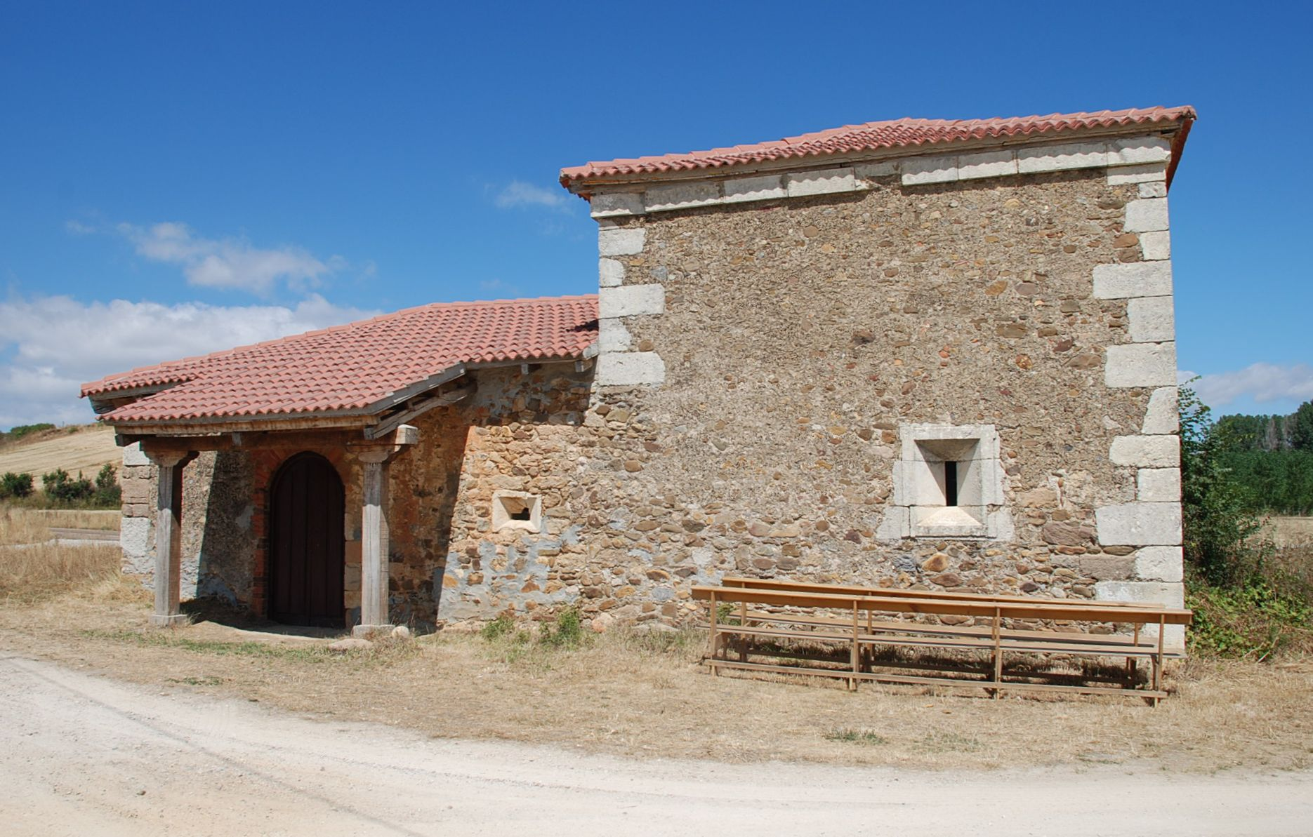 Hermitage of Saint Roque in Riosmenudos de la Peña (Palencia, Castile and León).